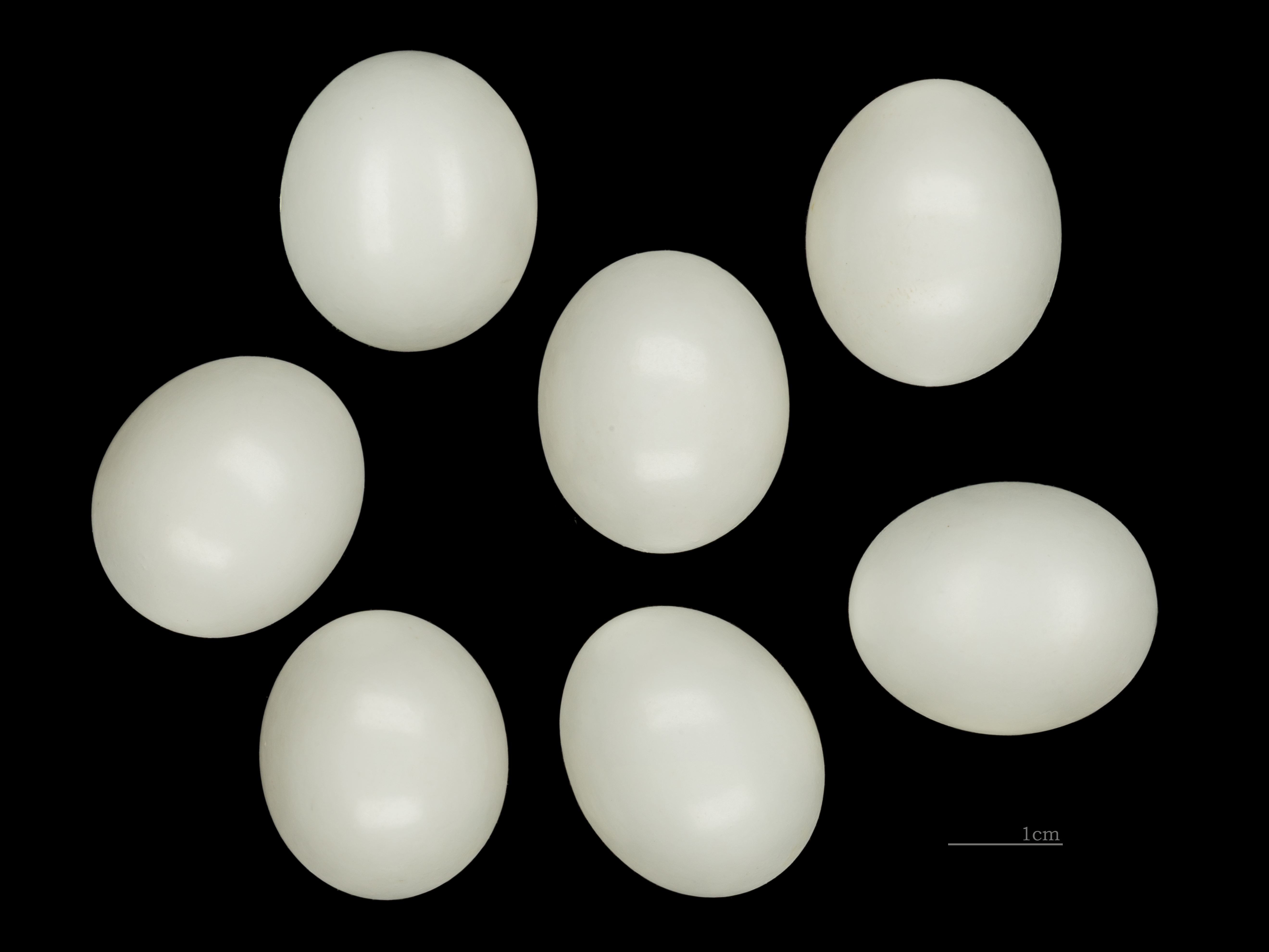 Egg of European Bee-eater. Collection of Jacques Perrin de Brichambaut.